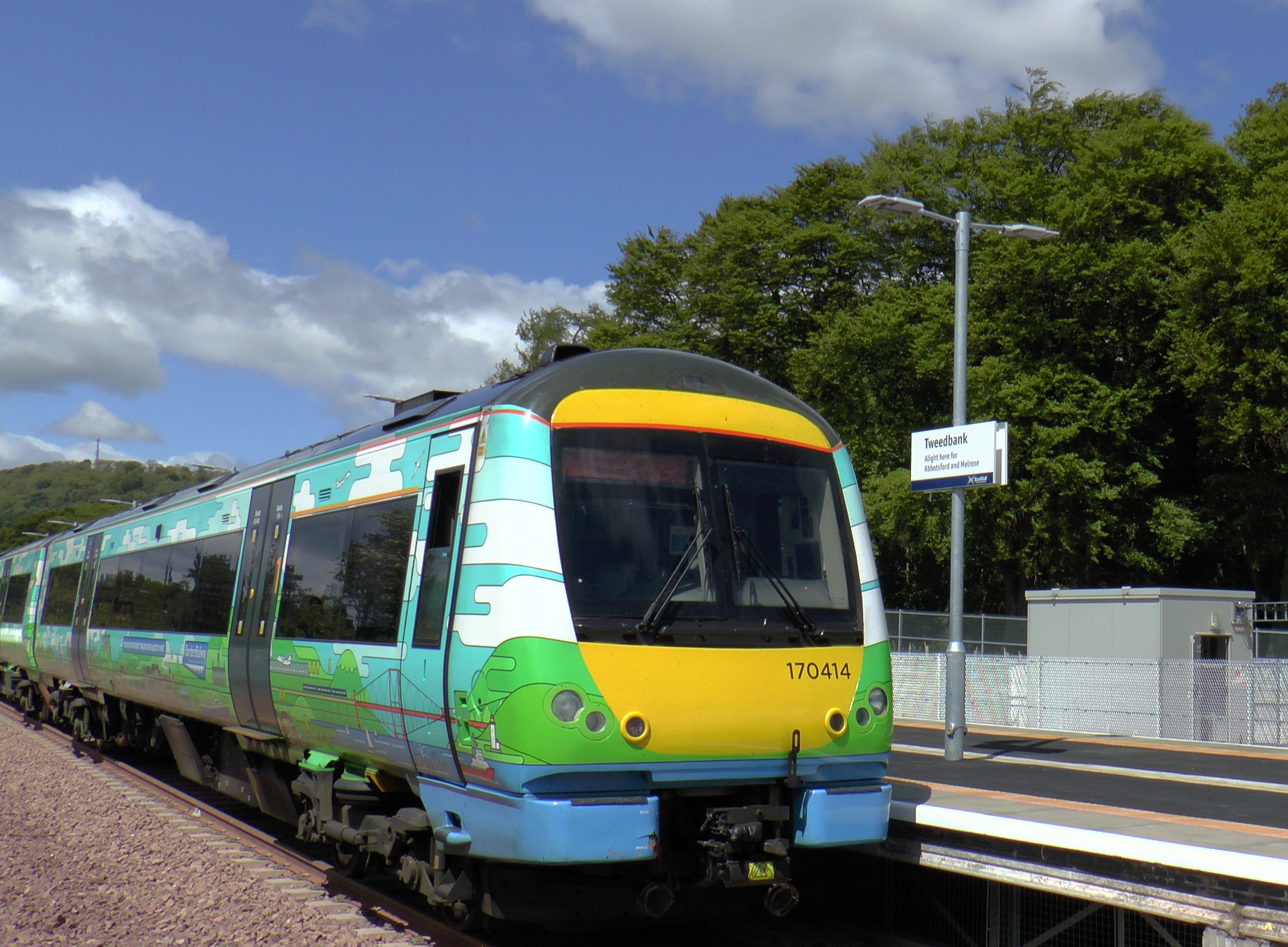 DMU 170414 in special livery at Tweedbank station on the Borders Railway while on on proving train duties.